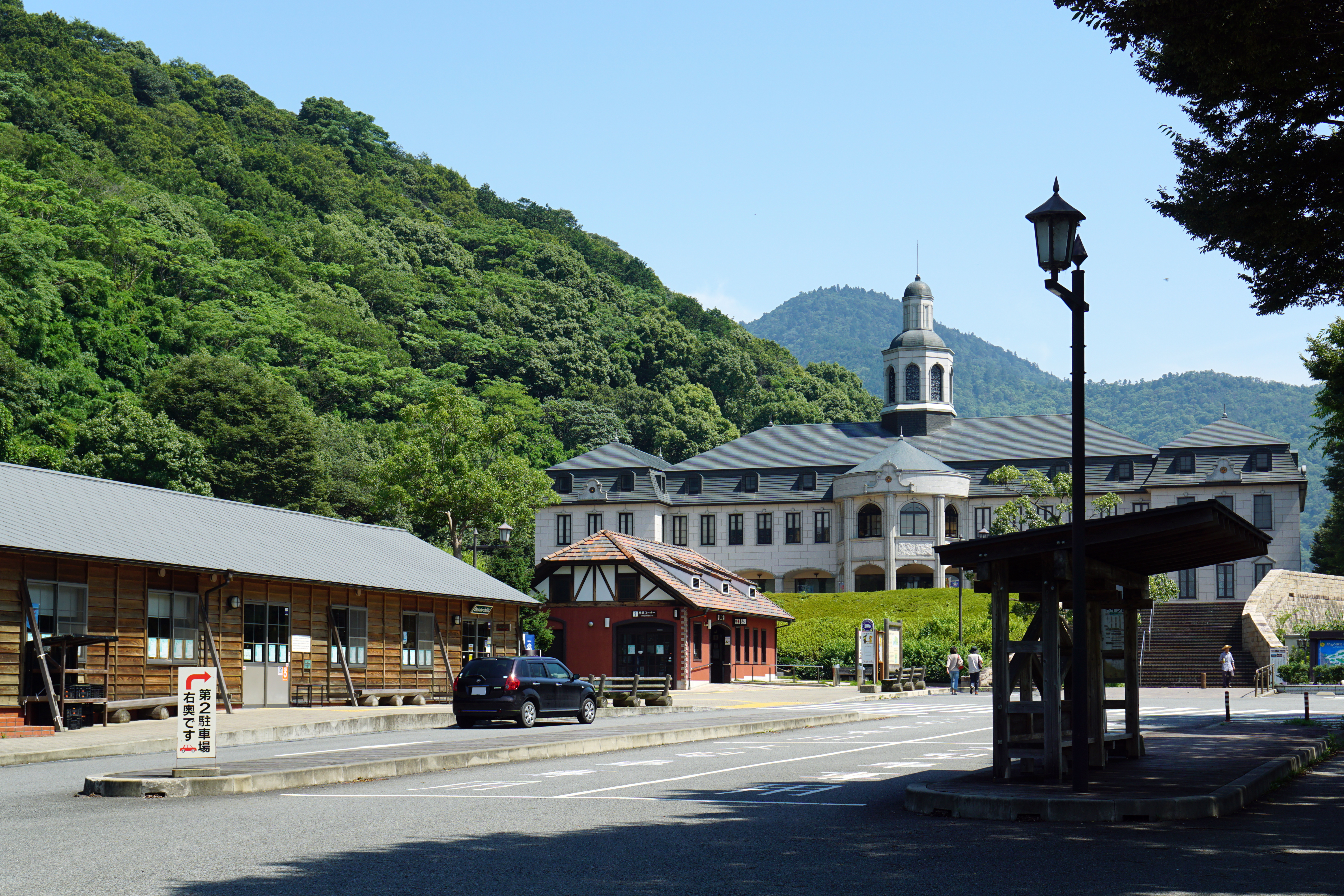 Michinoeki Daiku no sato in Naruto, Tokushima prefecture, Japan.